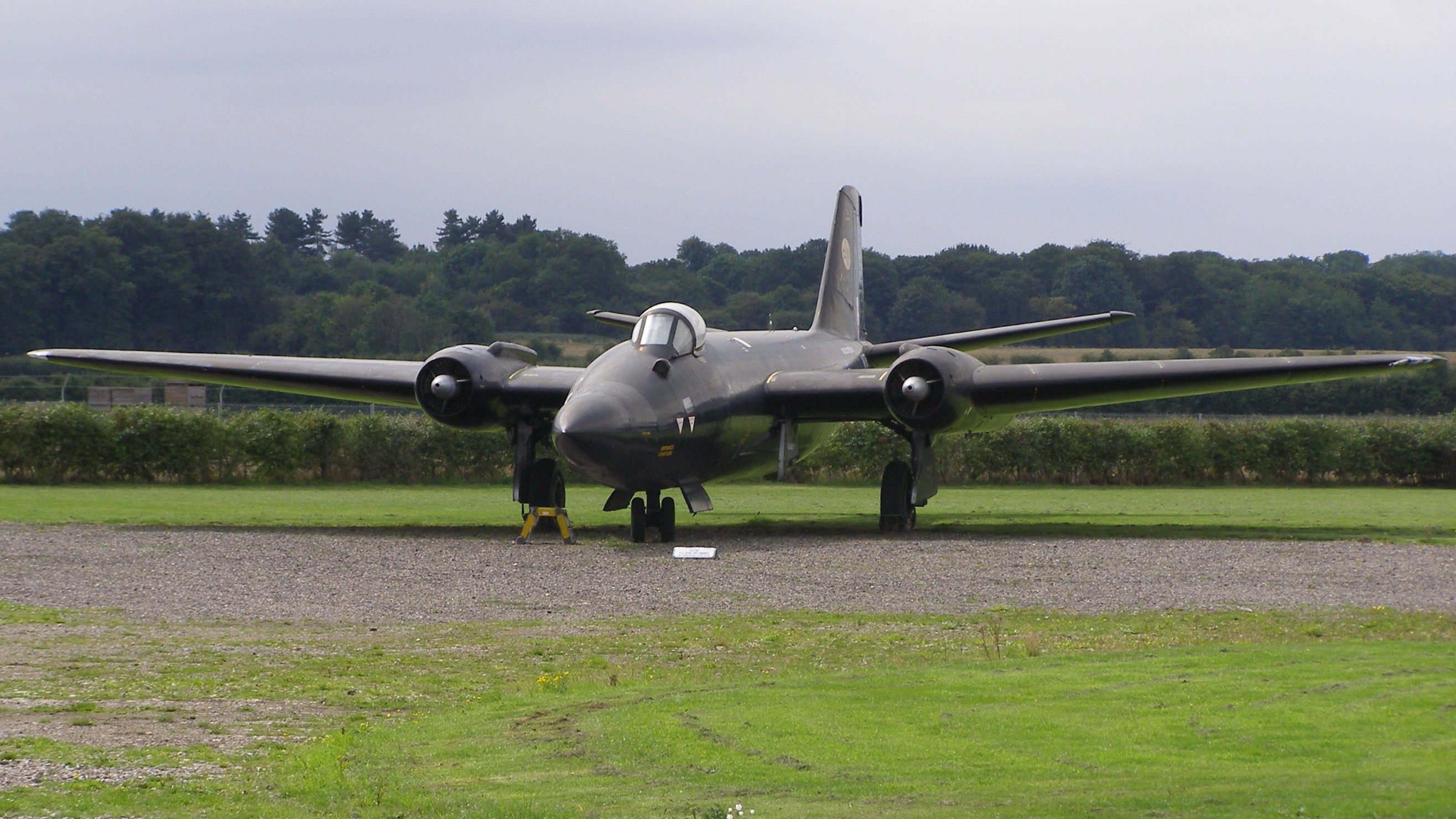 English Electric Canberra B2(Modified) serial number WV787 at the Newark Air Museum, United Kingdom.